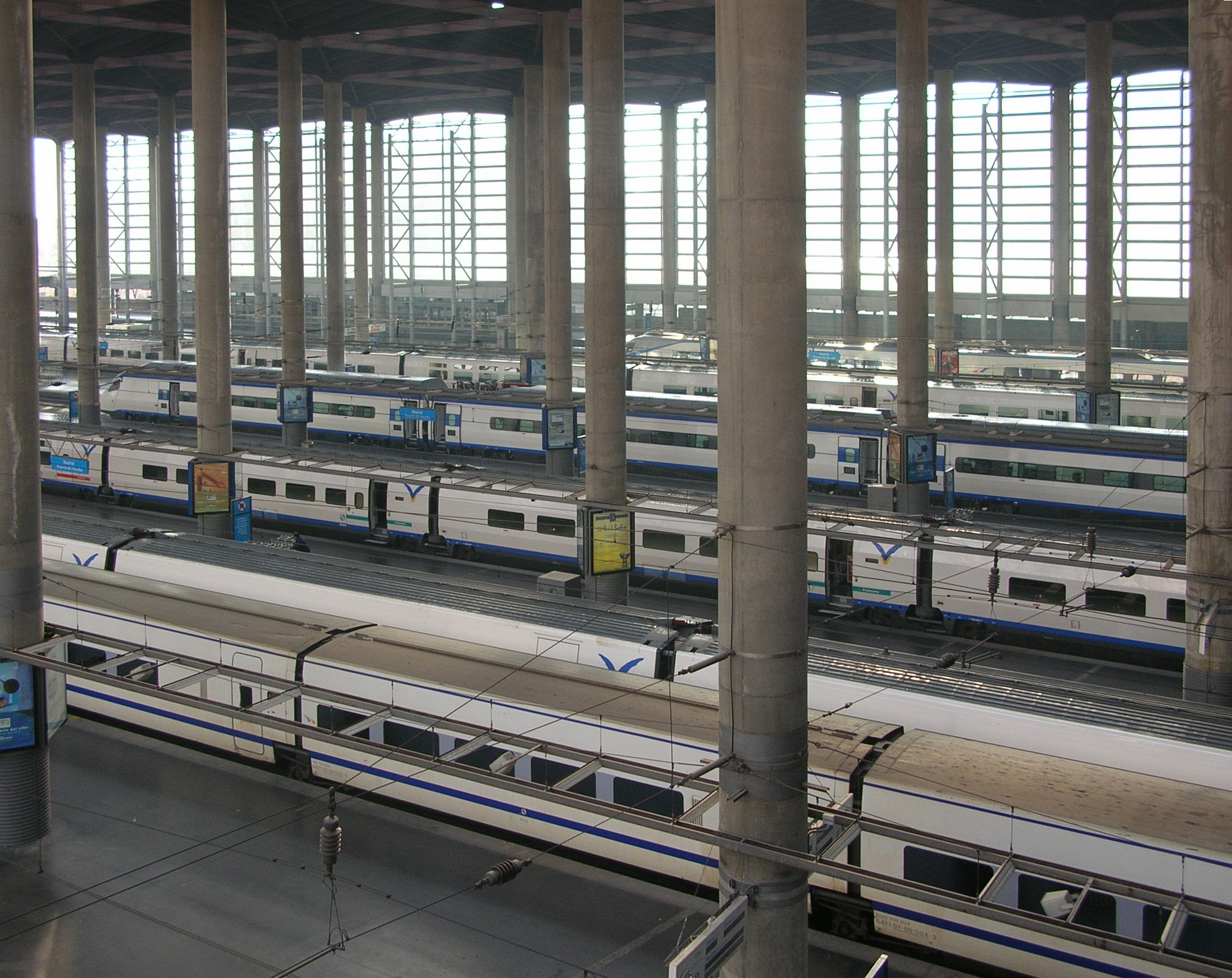 The Atocha Station extension by José Rafael Moneo in Madrid.